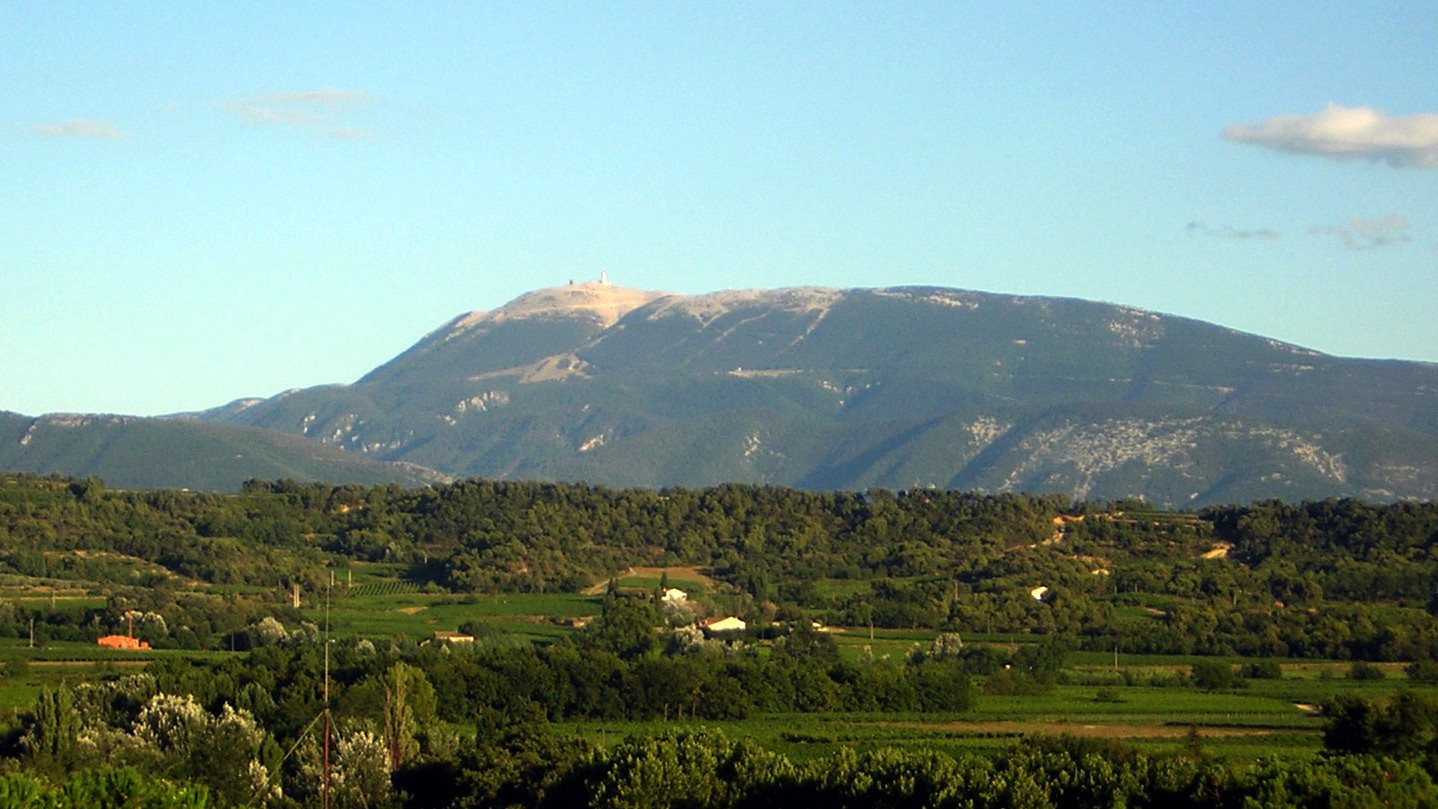 from English Wikipedia View of Mont Ventoux from Mirabel-aux-Baronnies. Taken by User:Diniz, August 2004